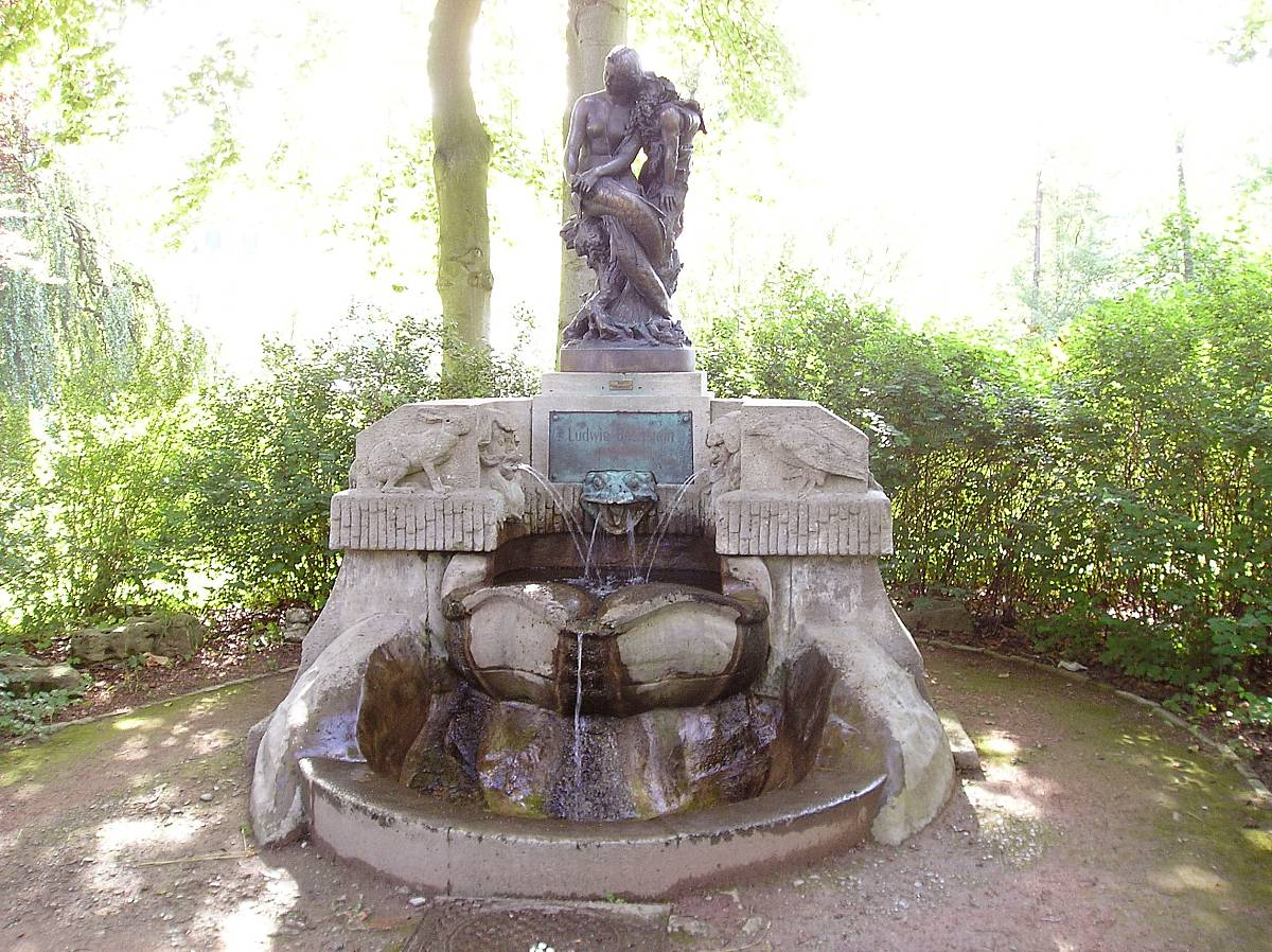 Bechsteinbrunnen (Fountain dedicated to Ludwig Bechstein) at Englischer Garten in Meiningen, sculpted by Robert Diez in 1909